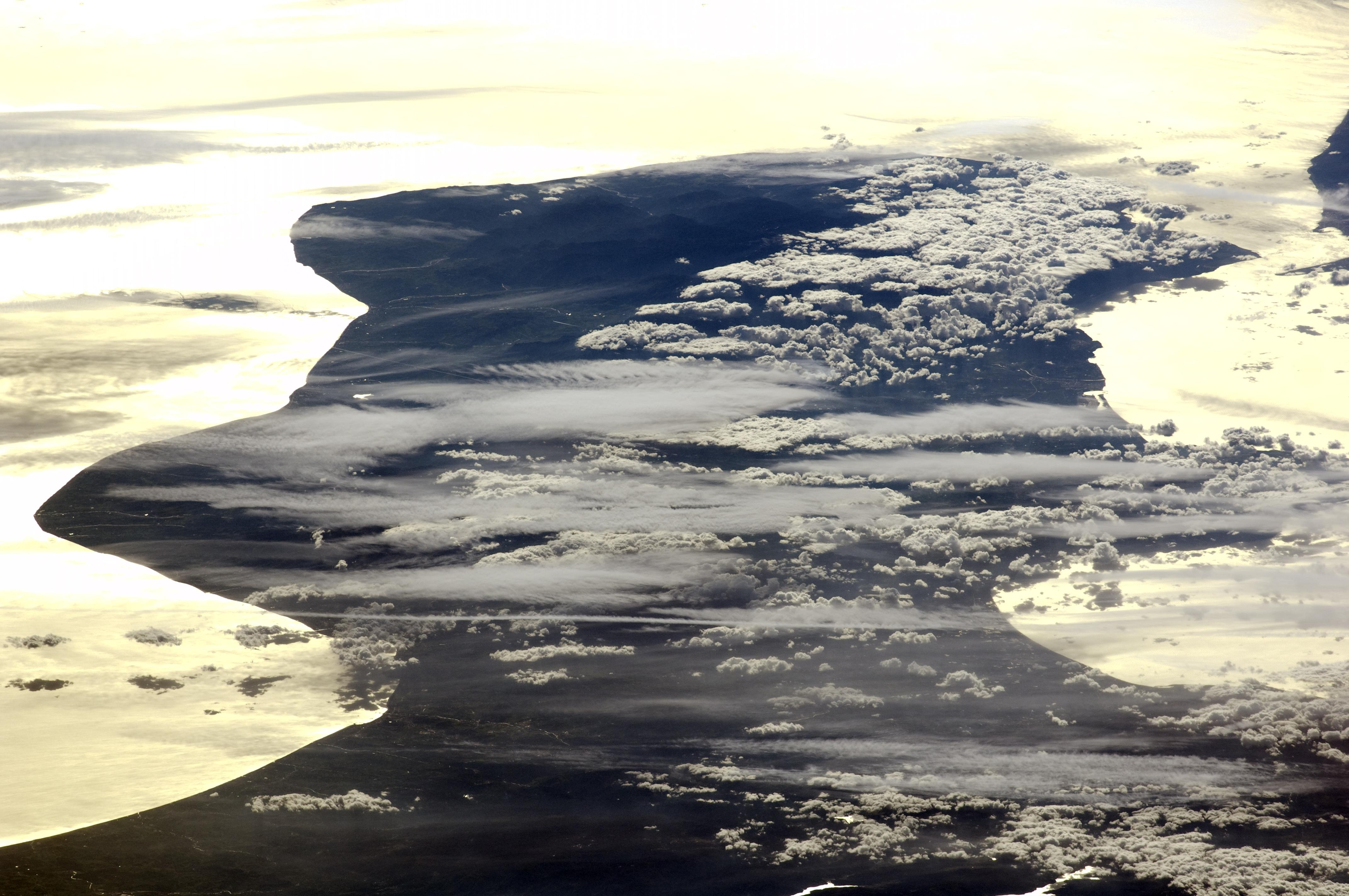 Calabria photography taken from the ISS